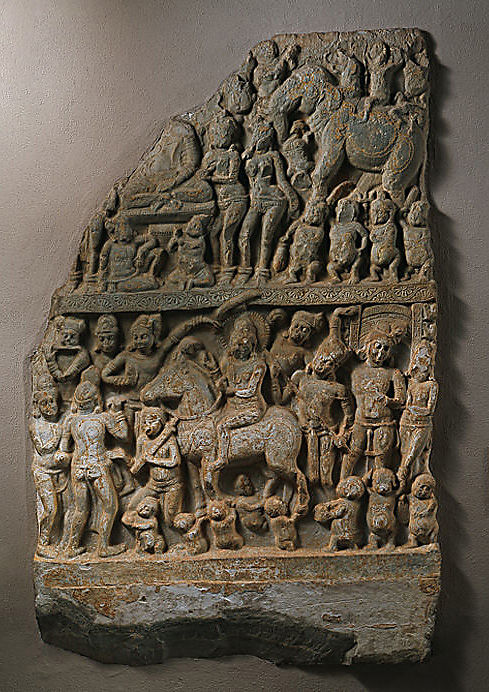 The Great Departure and the Temptation of the Buddha ca. first half of the 3rd century India (Andhra Pradesh, Nagarjunakonda) The lower scene shows Siddhartha on horseback leaving his father's palace in order to seek enlightenment. A groom leads the horse, whose hoofs are supported by ganas (semi-divine dwarves), so the people of the palace will not be awakened. The other figures are divine beings that have come to witness his departure from the material world. Above, the Buddha's enlightenment at Bodhgaya is shown. The evil god Mara attempts to thwart Siddhartha first by sending his beautiful daughters to tempt him and then by attacking the Buddha with his army of demons, here shown as ganas brandishing weapons and riding an elephant. Object Details Period:Ikshvaku period Date:ca. first half of the 3rd century Culture:India (Andhra Pradesh, Nagarjunakonda) Medium:Limestone